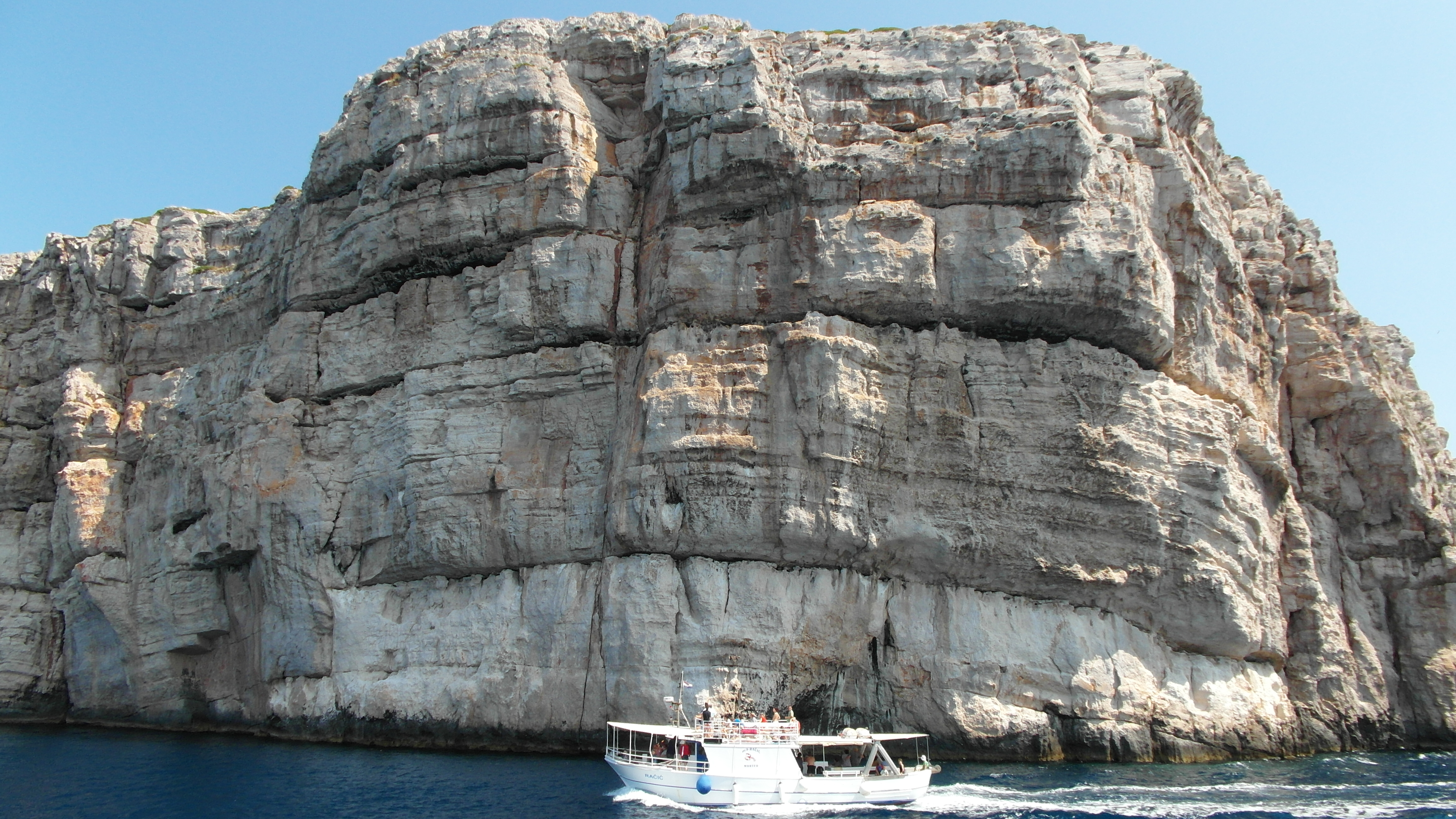 The small boat under a huge rock.